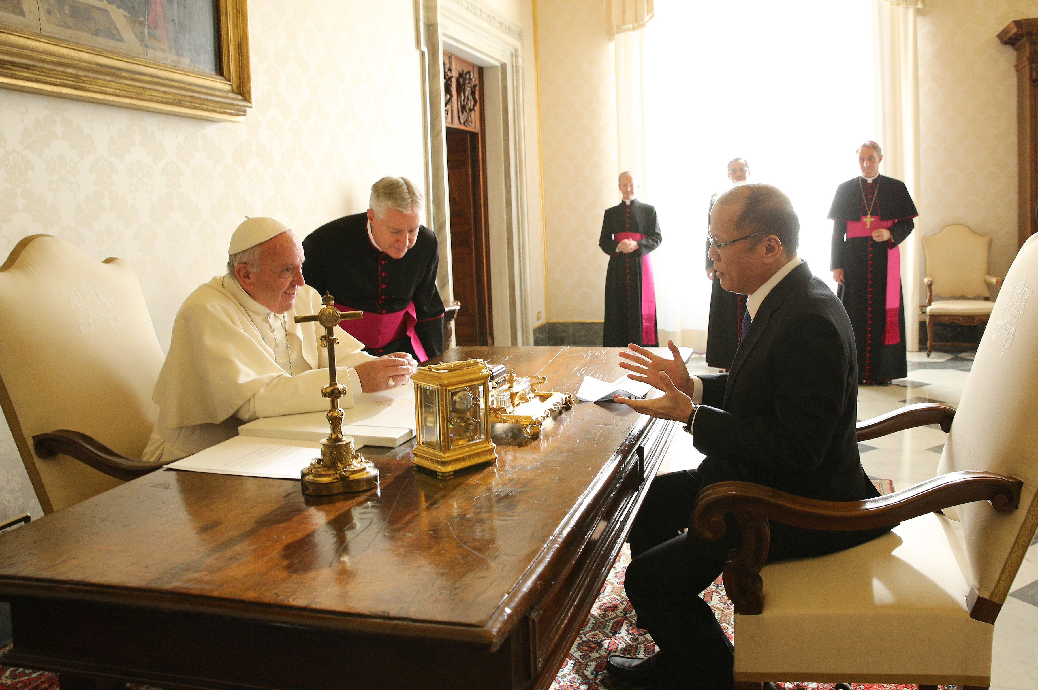 (VATICAN) President Benigno S. Aquino III and His Holiness Pope Francis exchanges views during the private conversation at the Papal Library of the Apostolic Palace for the Private Audience on Friday (December 04, 2015).